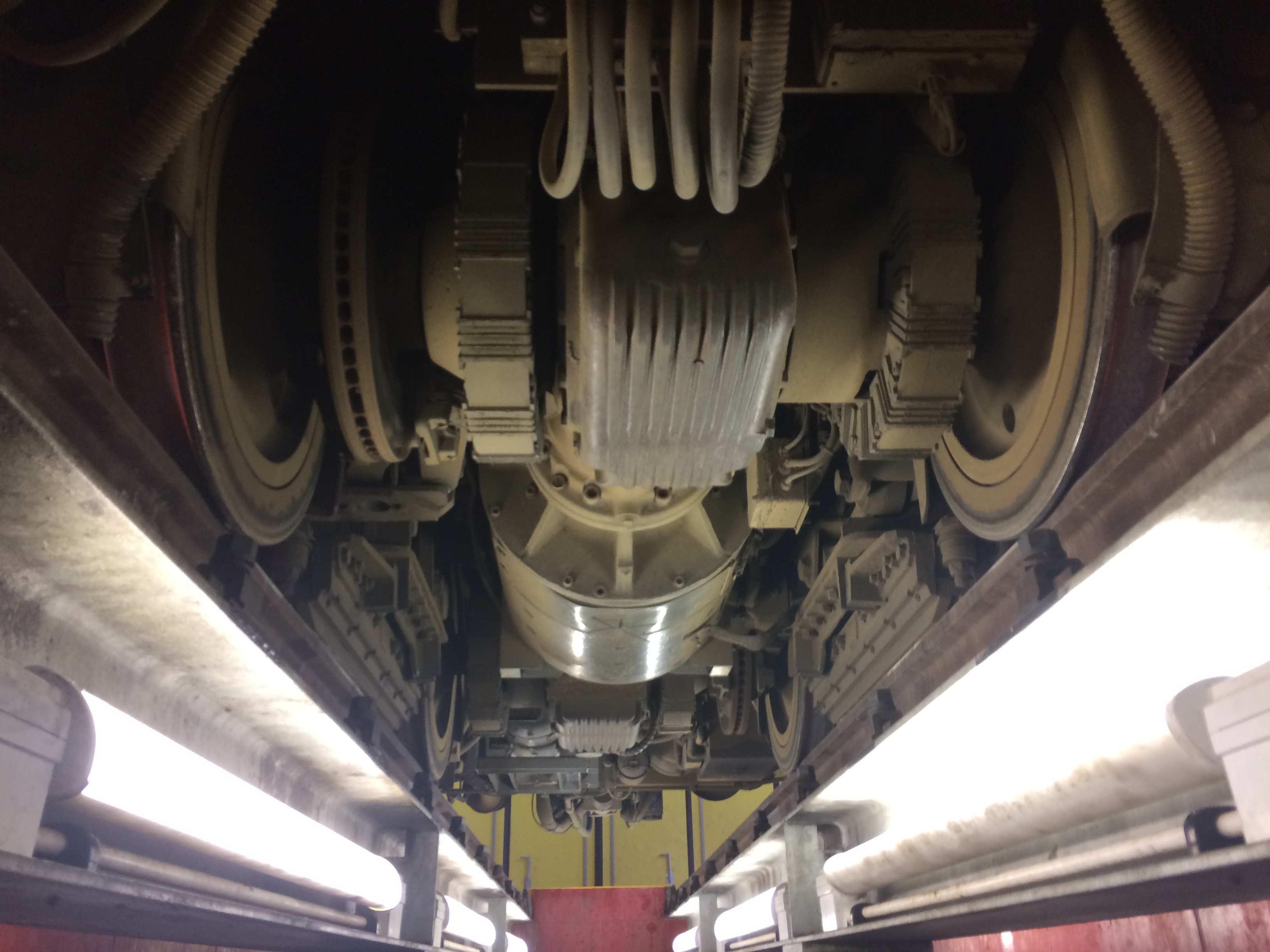 Close-up view of a Class 7.000 BN LRV motorized bogie.